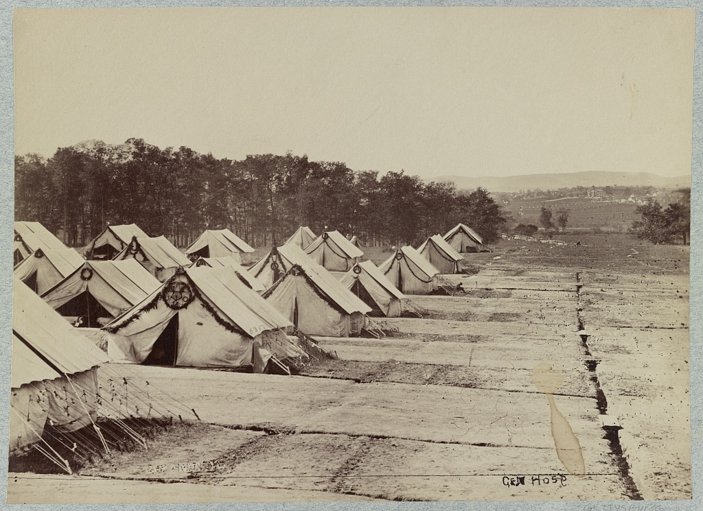 General Hospital, Gettysburg, August, 1863 photographed 1863, [printed between 1880 and 1889] 1 photographic print on card mount : albumen. Notes: No. 5350. Title from item. Gift; Col. Godwin Ordway; 1948. Subjects: United States--History--Civil War, 1861-1865. United States--Pennsylvania--Gettysburg. Format: Albumen prints--1860-1870. Repository: Library of Congress, Prints and Photographs Division, Washington, D.C. 20540 USA, Higher resolution image is available (Persistent URL): Call Number: LOT 4180, no. 40